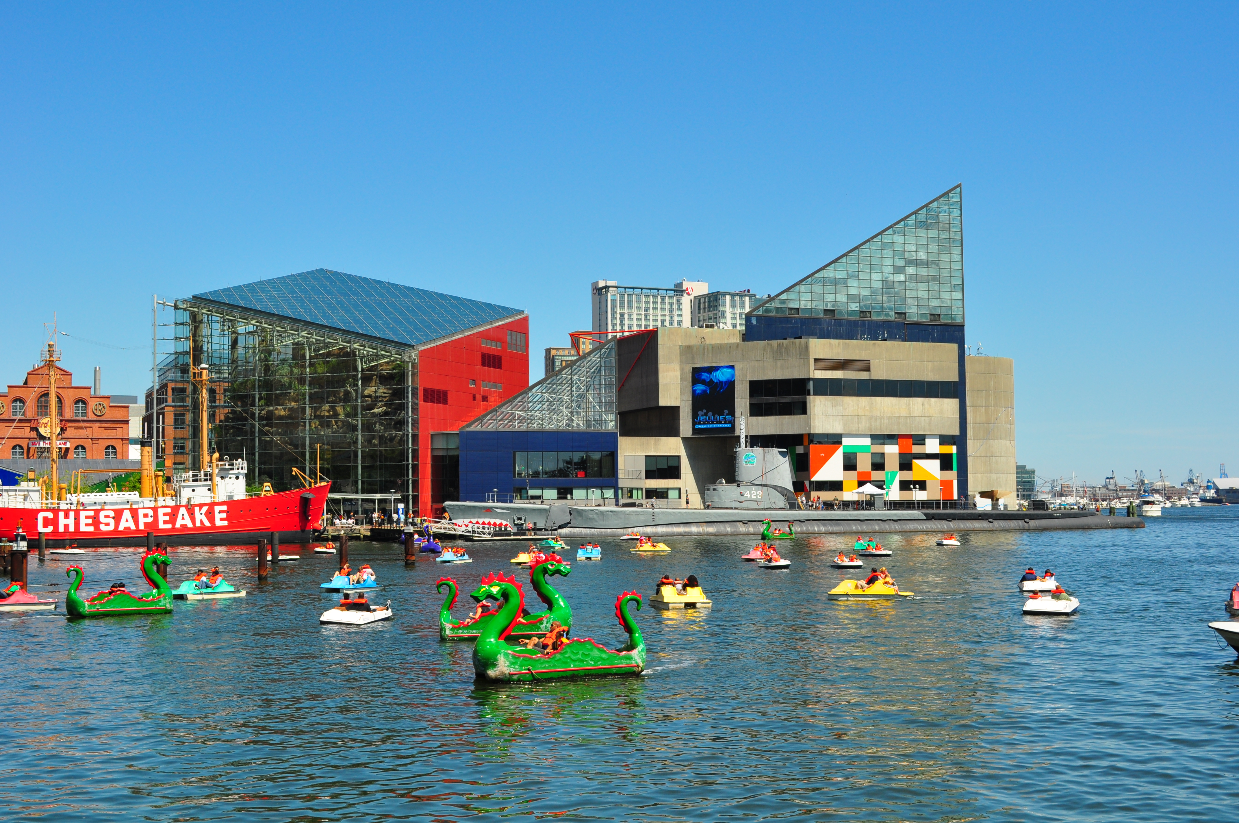 A photo of the Baltimore National Aquarium taken July 3, 2010